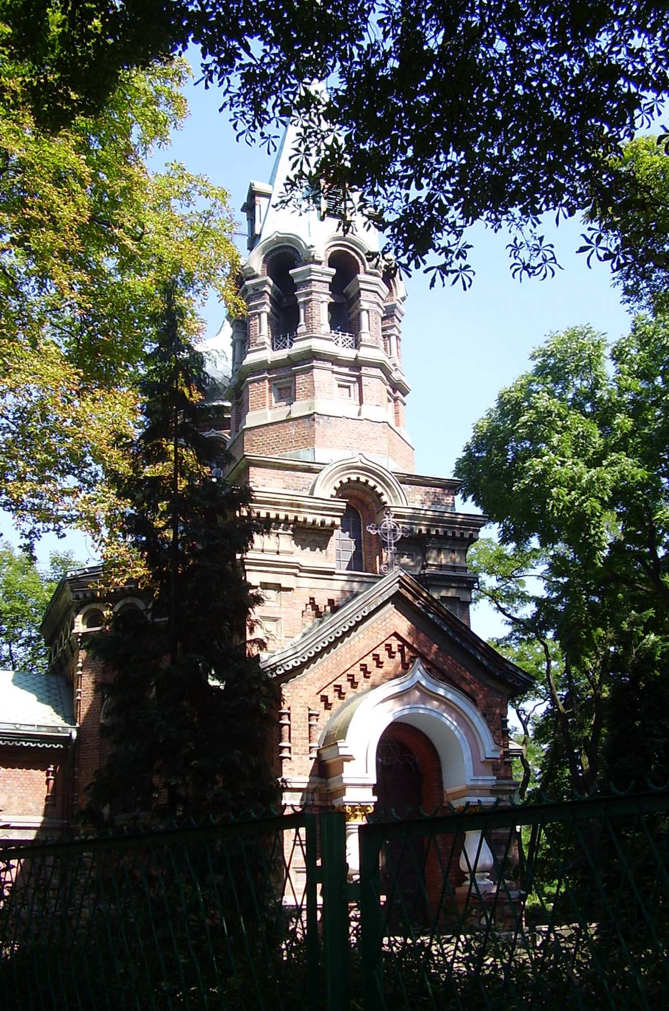 Sosnowiec-church of St. Vera